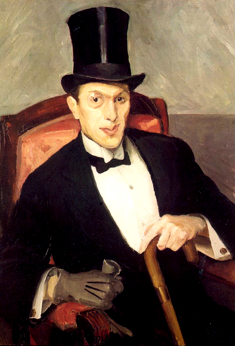 „Bonvivant“, oil on canvas (90,2x68,4 cm) from 1908 by Croatian painter Miroslav Kraljević (died in 1908.)